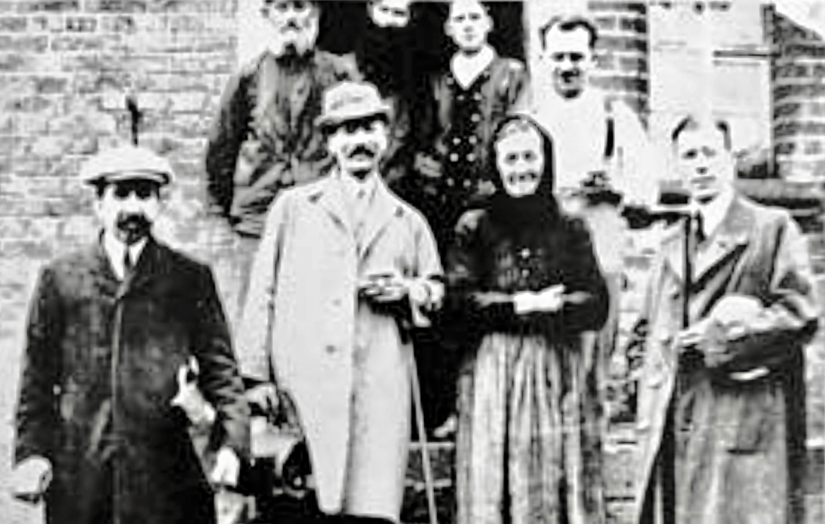 On the right: Ernst Putz (1896–1933), youngest member of German parliament during Weimar Republic between 1924 and 1933. He died incarcerated by Nationalsocialists. The picture shows farmers in Oberweid (Rhön Mountains) before or after a meeting.